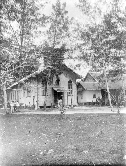 Roman catholic church